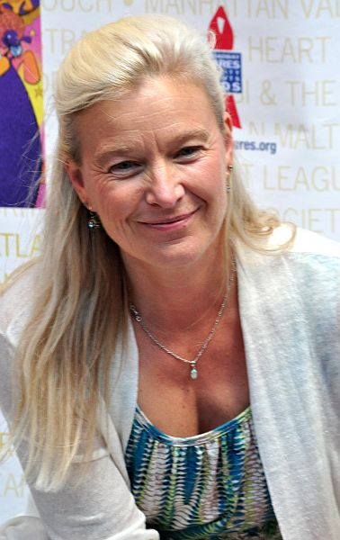 Nell Newman attends 13th Annual Broadway Barks Benefit on July 9, 2011 at Shubert Alley in New York City. (Photo © Nick Stepowyj)